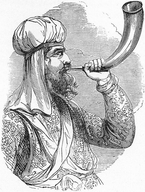 Feast of trumpets, as in Numbers 10:10, from Henry Davenport Northrop, Treasures of the Bible,' published by International Publishing Company 1894